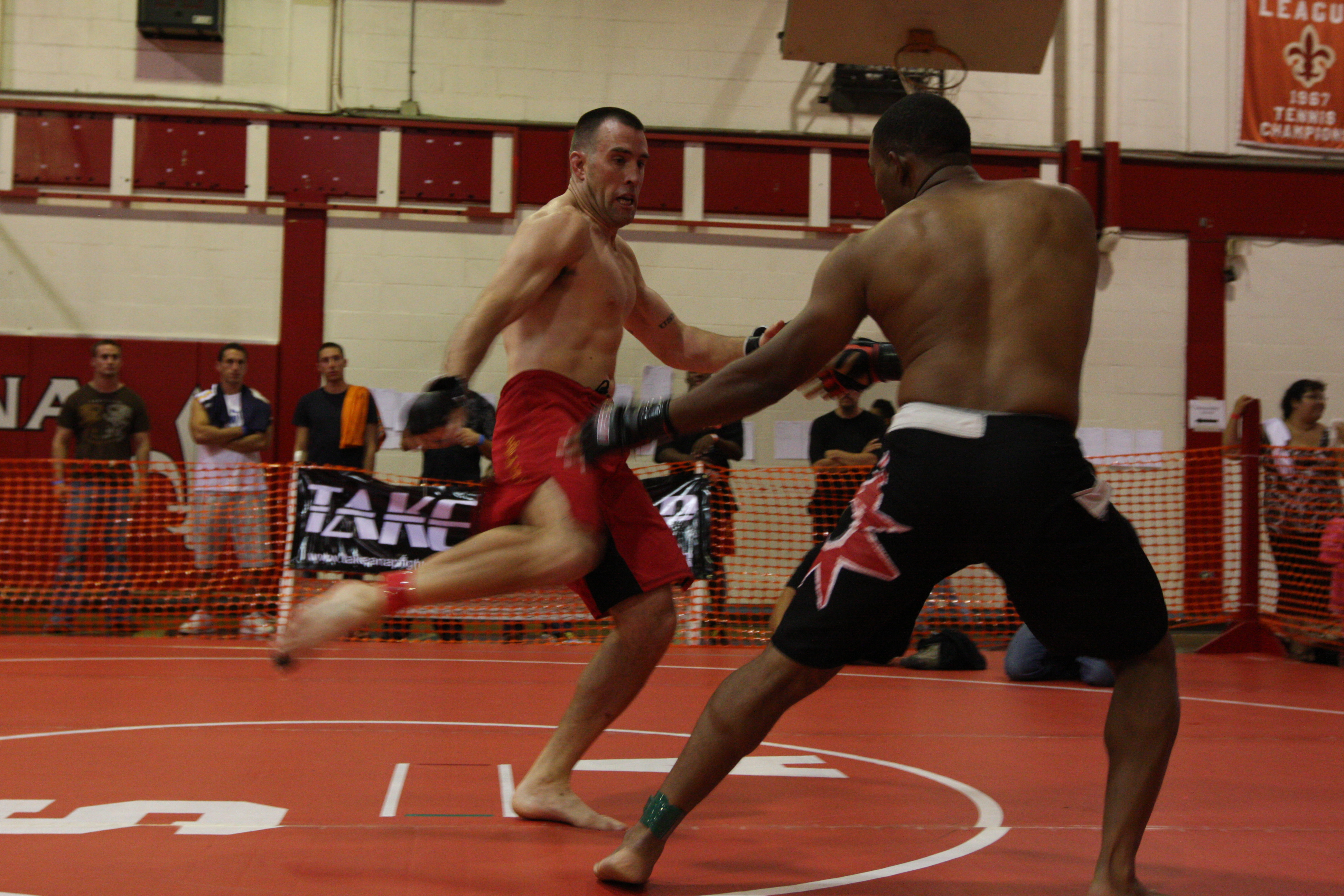 Kris Nekvinda, a 190-pound Fight Club 29 member, delivers a powerful body kick during the U.S. National Pankration Championships in Santa Ana, Calif., Oct 25.